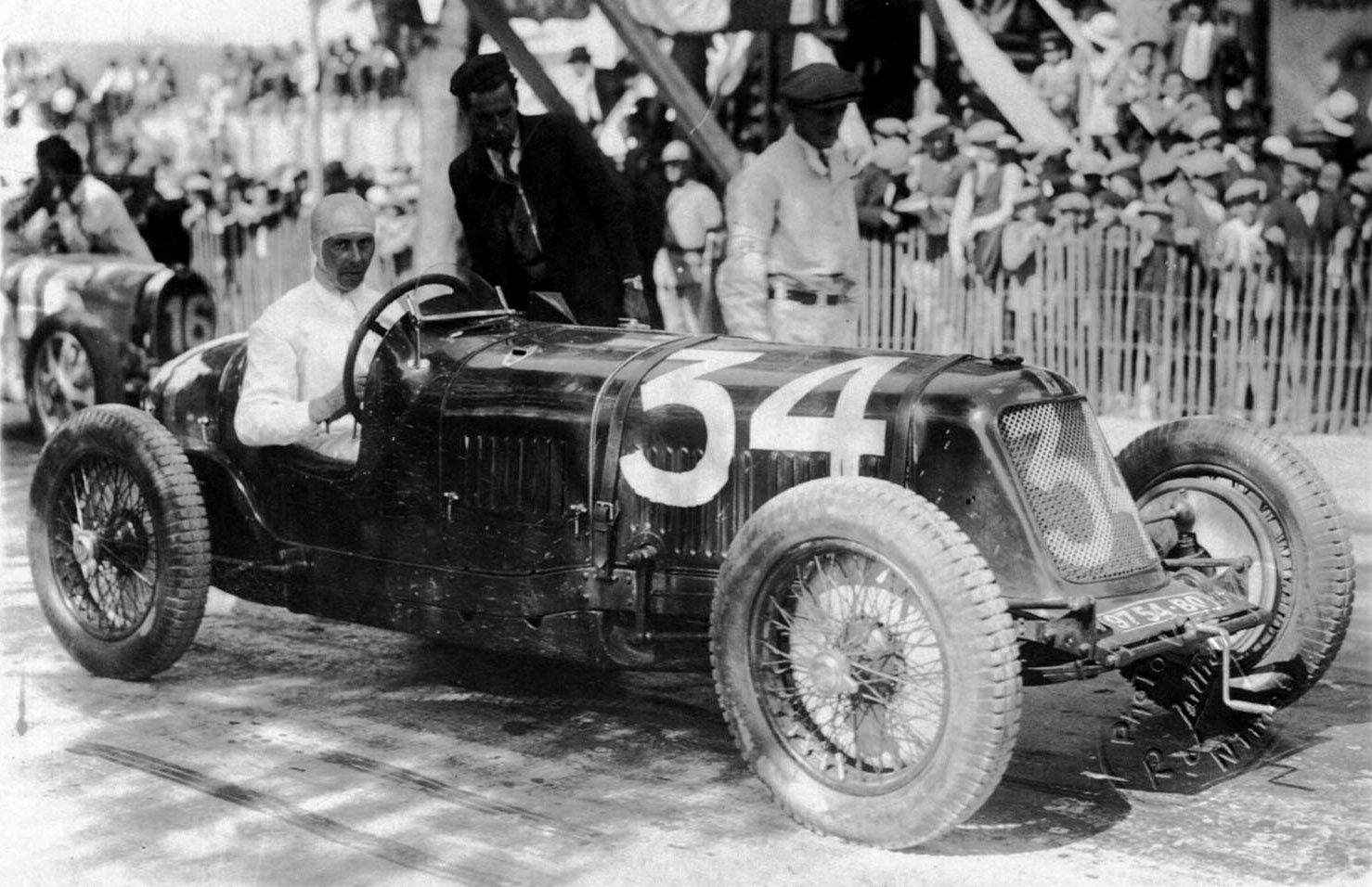 René Dreyfus in Grand Prix of Nîmes on a Maserati 26M, entry #34 is the 1928 Maserati Tipo 26B/M 8C 2800 s/n 33/2515